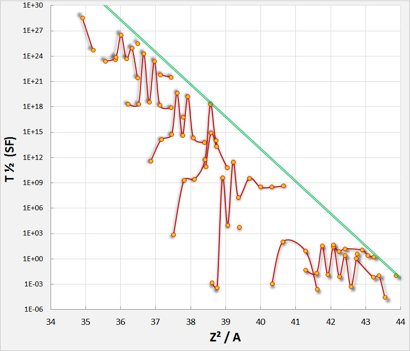 Spontaneous Fission Halflife (in ms) of Radionulides depending on Z²/A ratio of their nuclei